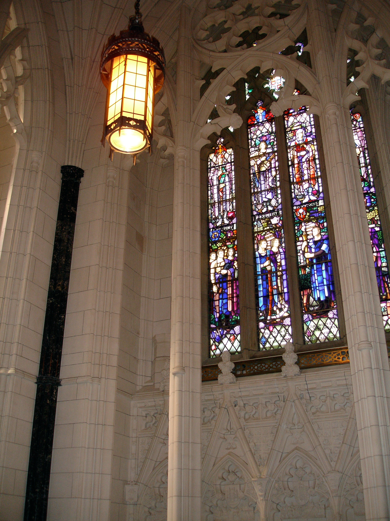 The elaborate stained glass windows of the Memorial Chamber were designed by Frank S.J. Hollister of Toronto.